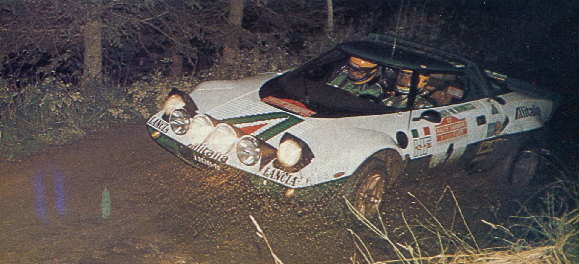 Sandro Munari and co-driver Mario Mannucci on a Lancia Stratos HF (Group 4) sponsored Alitalia at the 1975 Rallye Sanremo, 1st special stage.